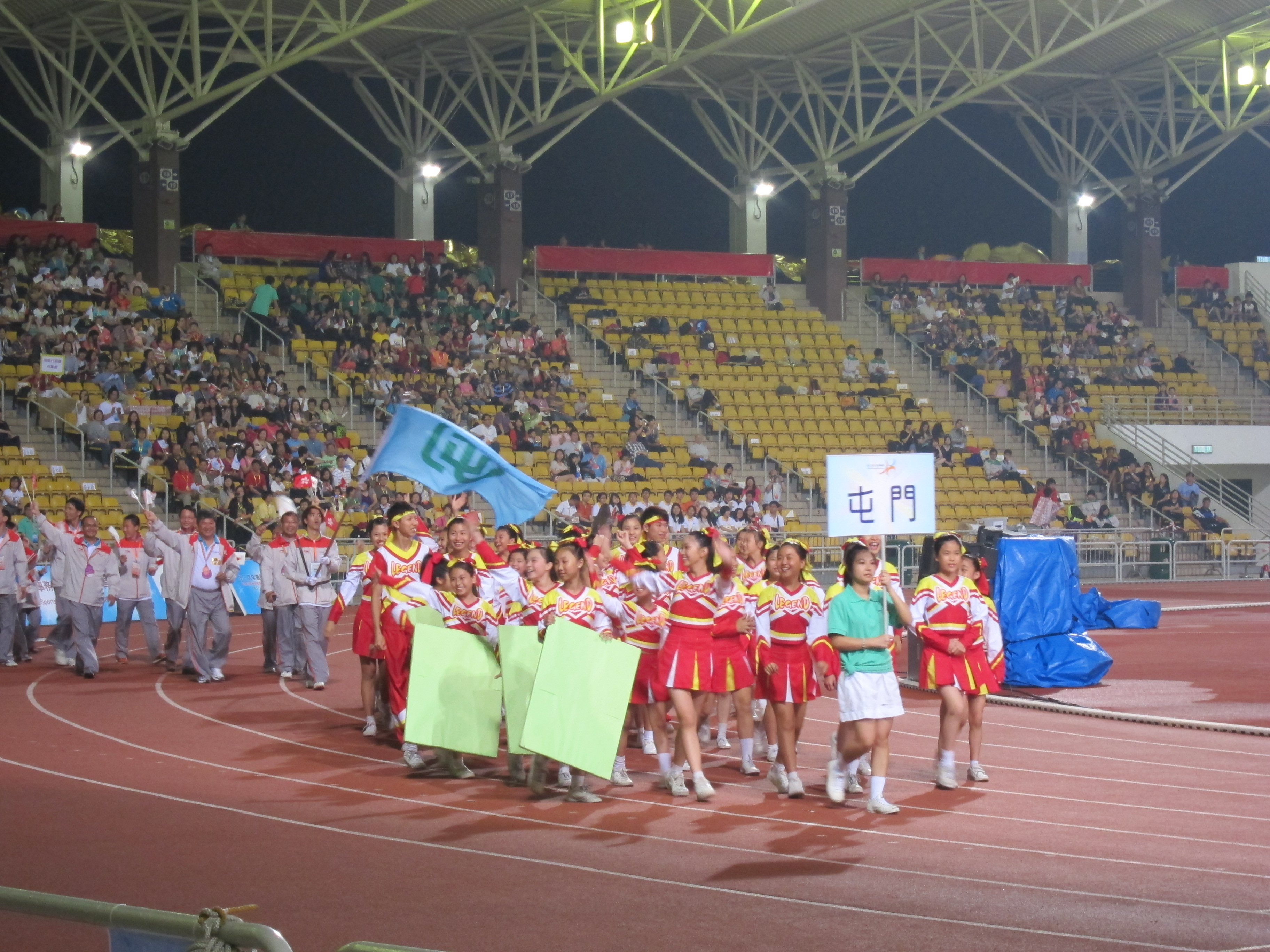 The open ceremony of the 2011 Hong Kong Games - The cheering team and athletes of Tuen Mun Team. 中文（香港）: 2011年全港運動會開幕典禮－屯門區的啦啦隊及運動員代表進場。